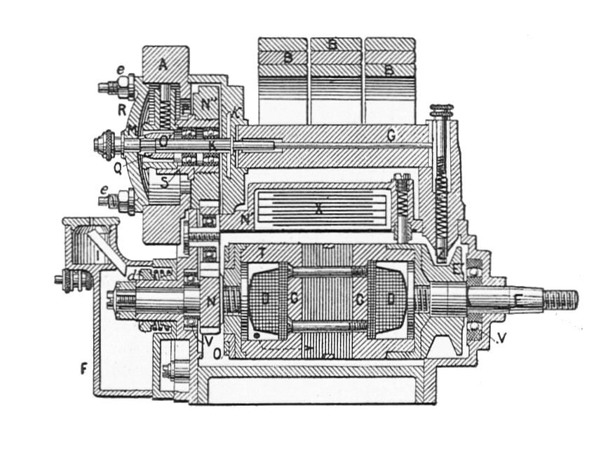 Magneto, longitudinal section (Rankin Kennedy, Modern Engines, Vol II).jpg